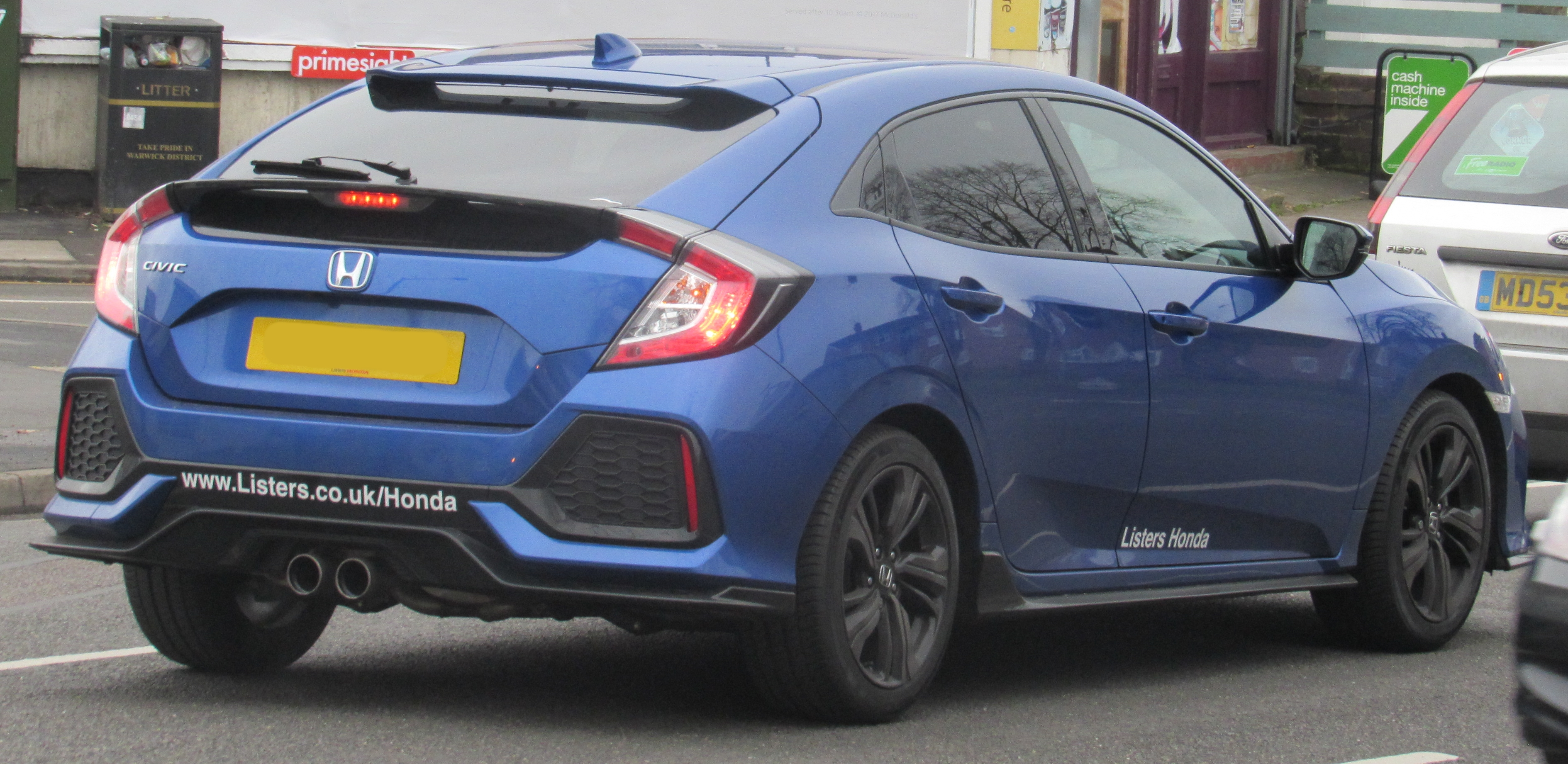 2017 Honda Civic Sport VTEC 1.5 Rear Taken in Warwick